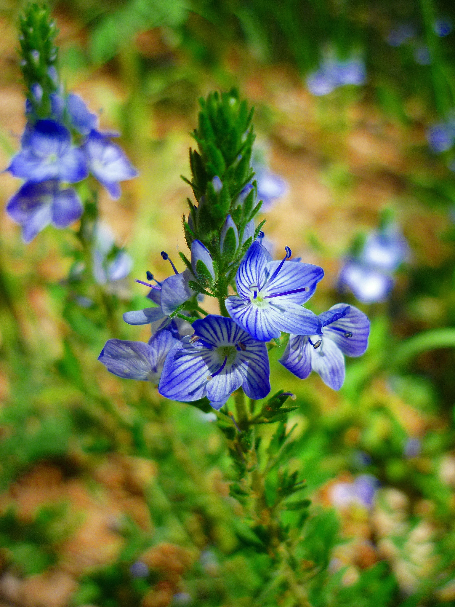 Veronica austriaca. In Torà (Segarra - Catalunya). To 585 m. altitude.